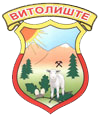 Coat of arms of the former Vitolište Municipality, Macedonia.